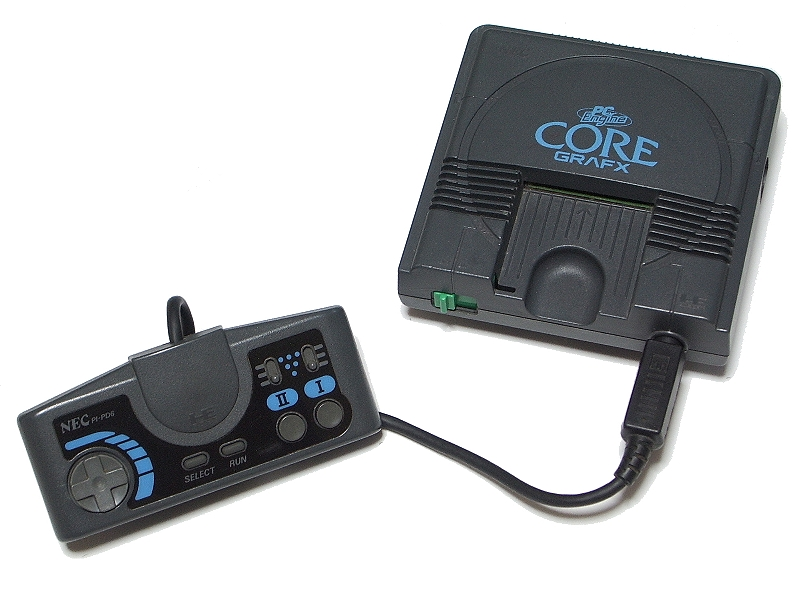 PC Engine Core Grafx (PI-TG3) with controller (PI-PD6).